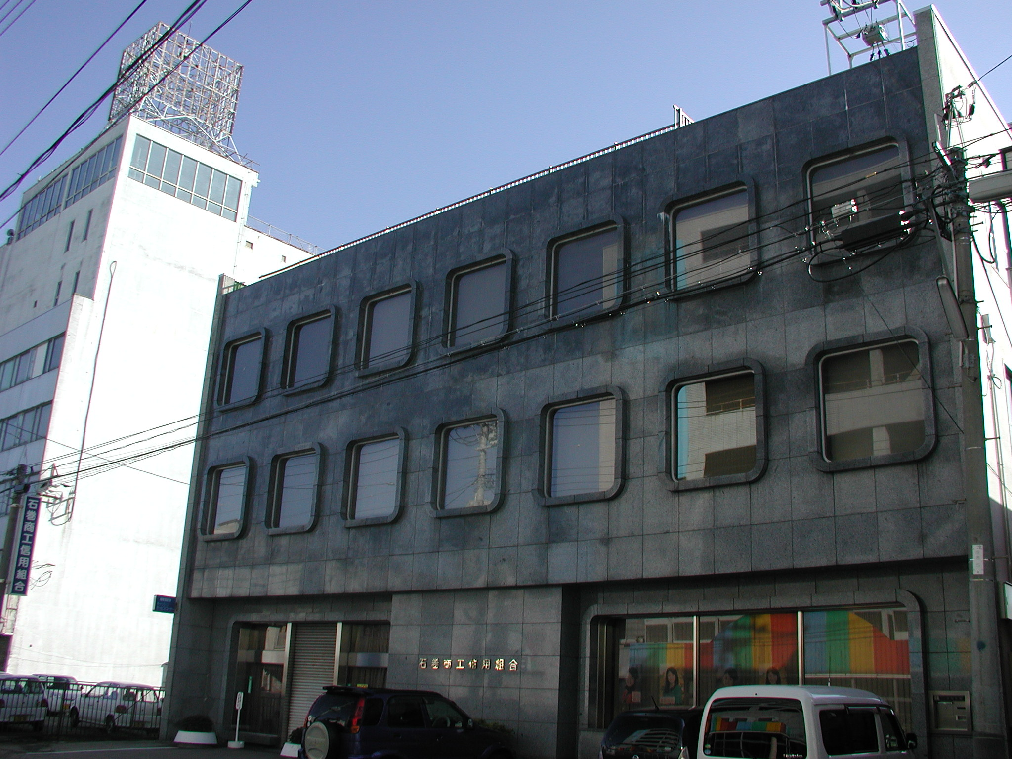 The Ishinomaki Shoko Credit Cooperative Head Shops